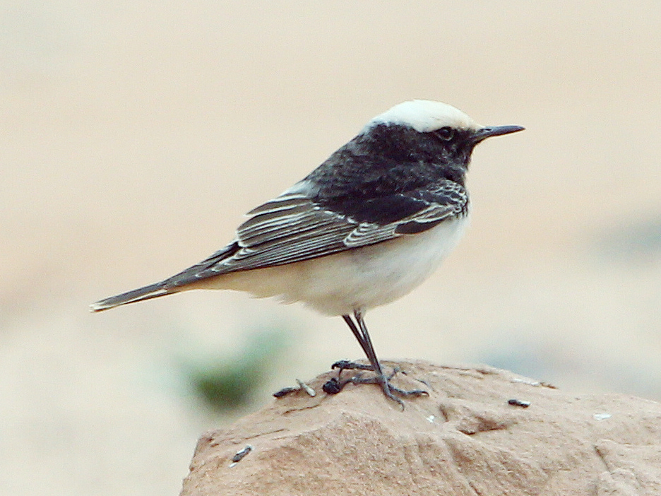 Oenanthe monacha, Hooded Wheatear, Jordan